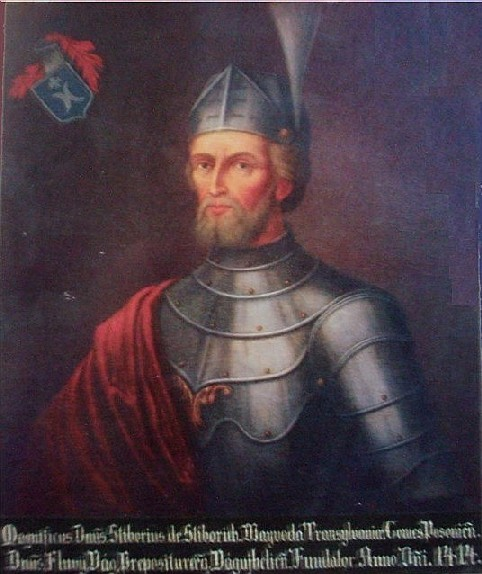 Stibor of Stiboricz